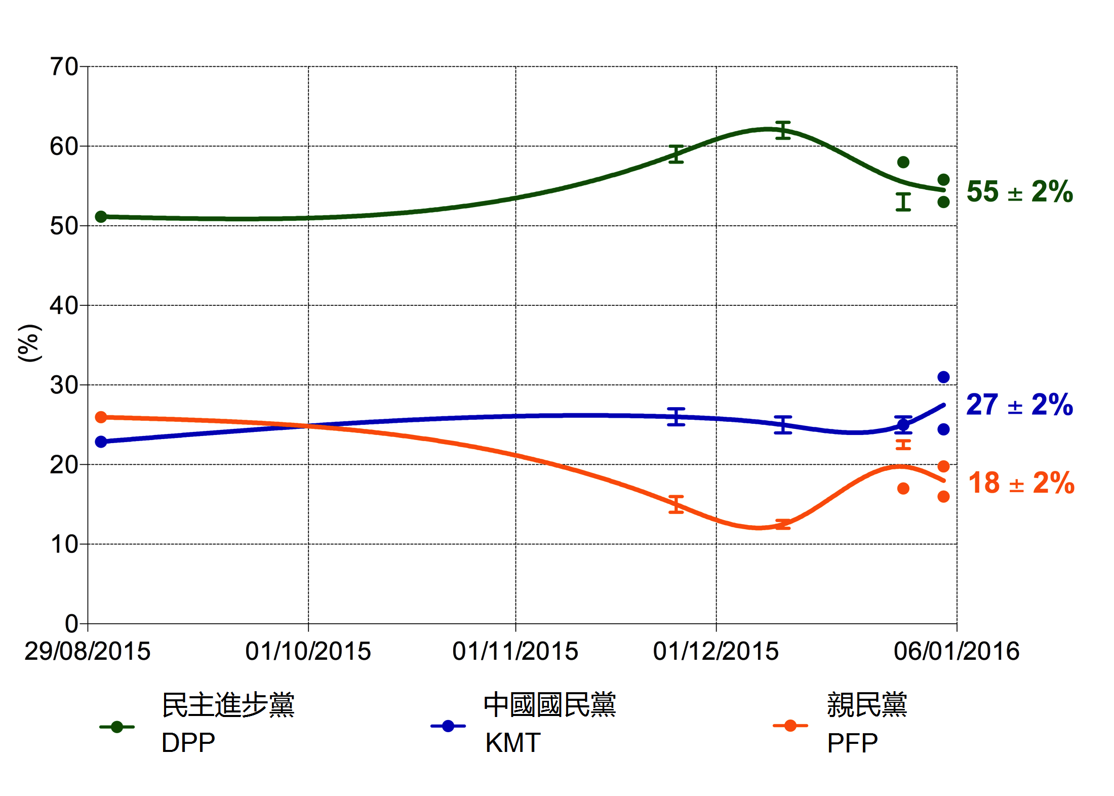 Projections for the 2016 Taiwan presidential elections, with spline curve.